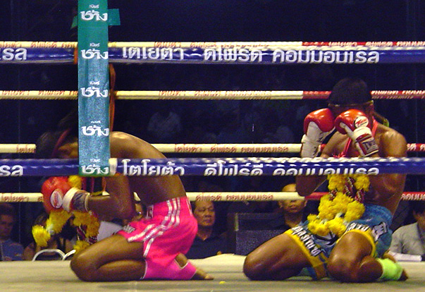 Thai boxers pray for safety and victory, and they pay homage to their teachers. They wear flowers and a headpiece as part of the ritual, known as Wai Khru.))